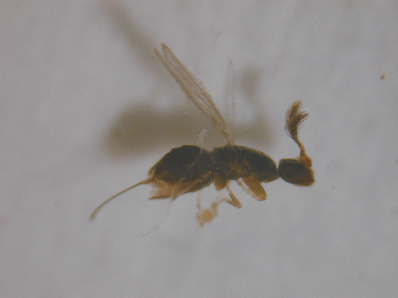 Ficus microcarpa (Agaonidae Parapristina verticillata female 000928 33 ex fruit). Location: Maui, Hamakuapoko